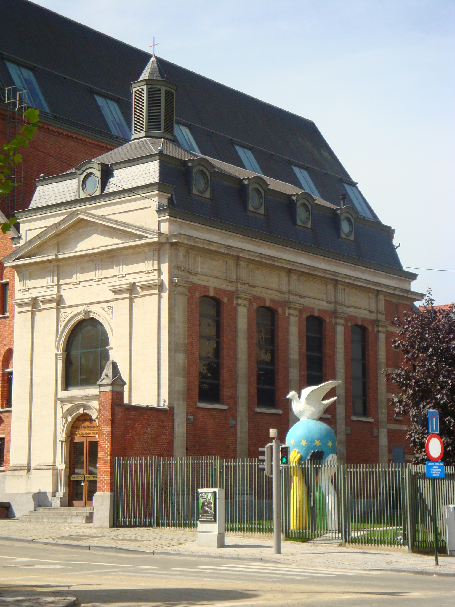 Chapelle de la Résurrection (fassade), rue Van Maerlantstraat 22-24 B-1040 Brussel Bruxelles